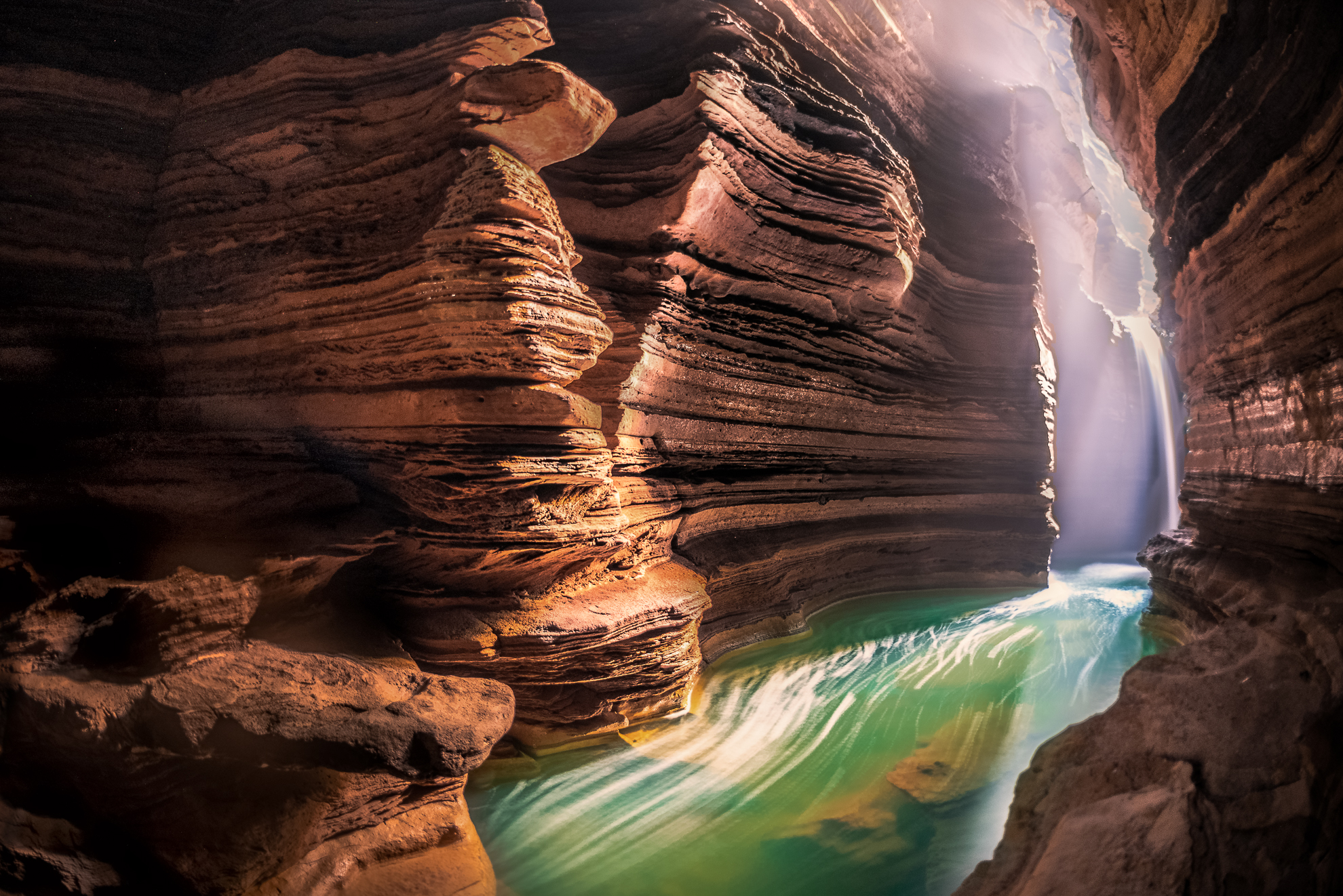 The Gupteshwor Mahadev cave is Nepal's most famous cave and is located close to Davis Falls on the other side of the World Peace Stupa.